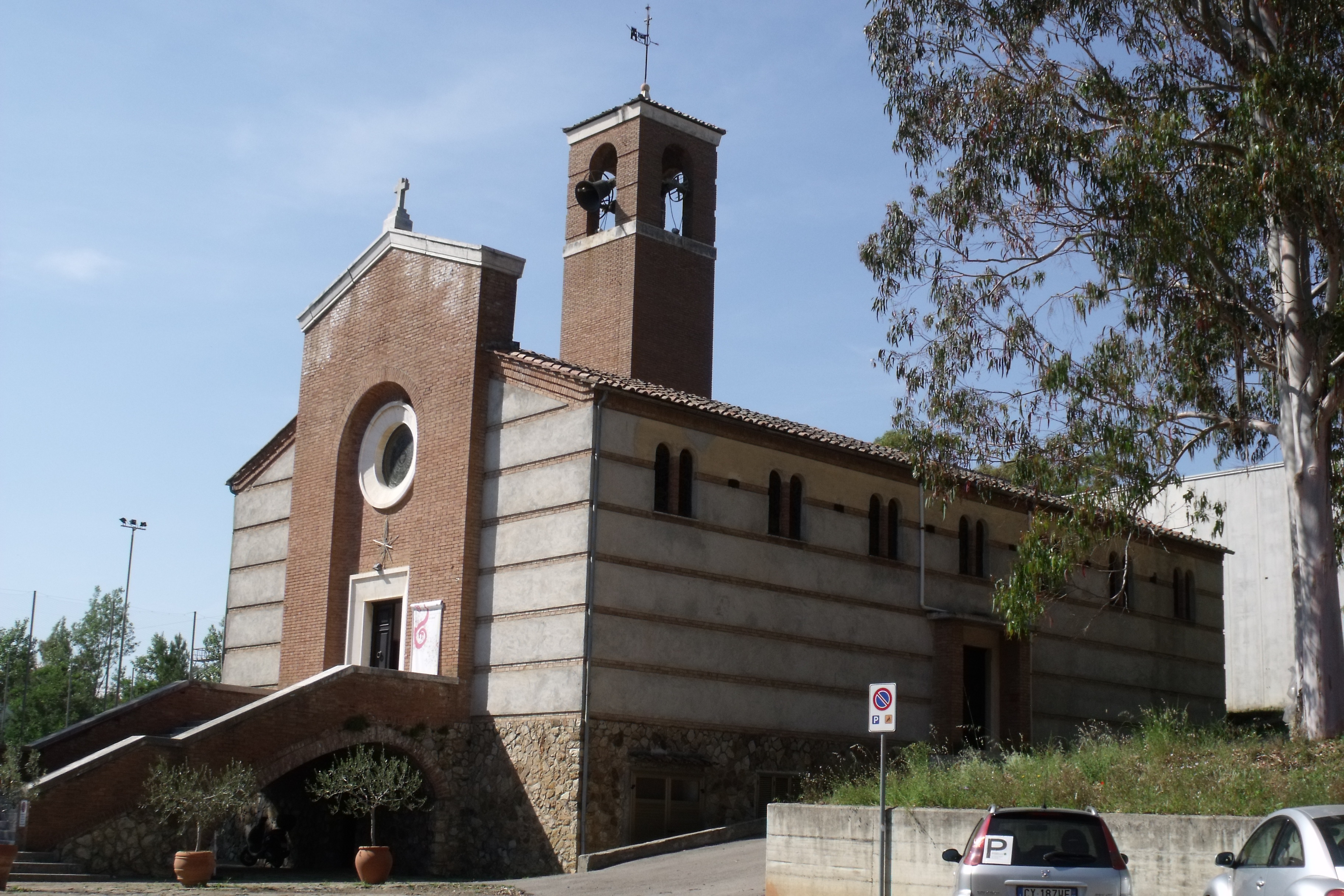 Church Chiesa dei Santi Barbera e Paolo in Ribolla, hamlet of Roccastrada, Province of Grosseto, Maremma Area, Tuscany, Italy